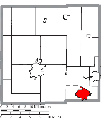 Map of the municipal and township boundaries of Crawford County, Ohio, United States, as of the 2000 census, with the location of the city of Galion highlighted. Township borders are shown only in unincorporated areas in order to differentiate incorporated and unincorporated areas more clearly.